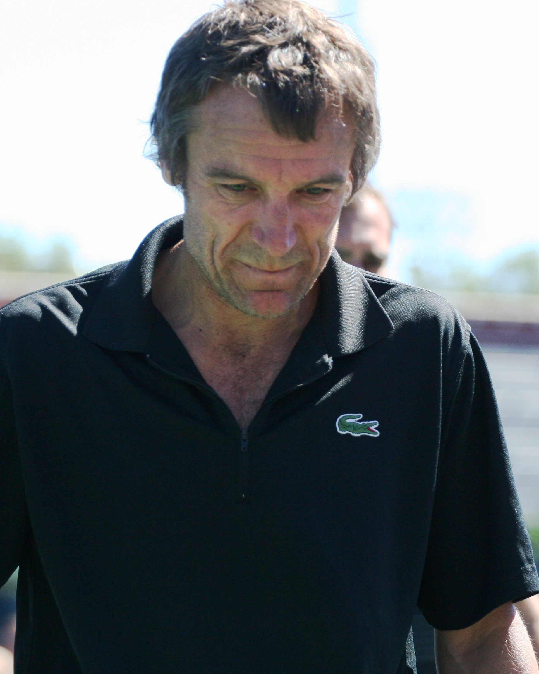 U.S. Open Champions Team Tennis Saturday, Sept. 11, 2010